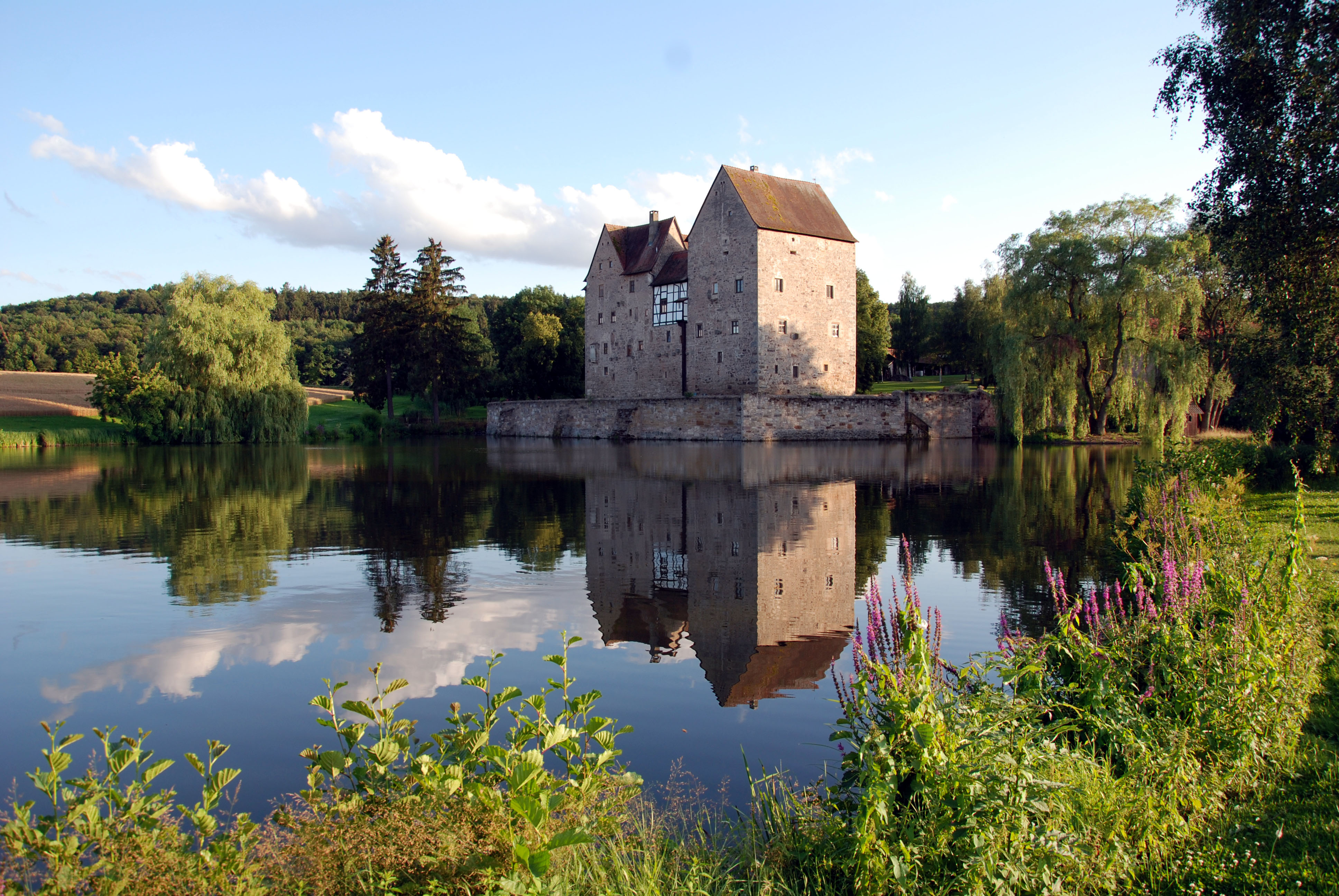 view of Brennhausen with reflection